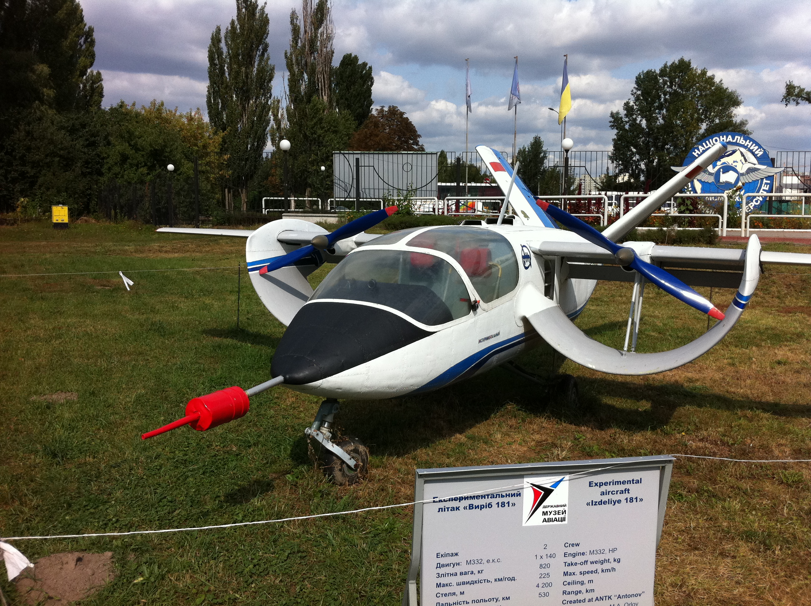 Antonov Izdeliye 181, experimental channel wing aircraft, at the State Aviation Museum, Zhuliany Airport, Kiev, Ukraine